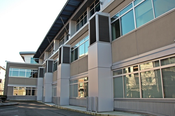 exterior shot of the Bloodworks Northwest Research Institute building